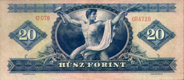 20 Hungarian forint (1947) - reverse